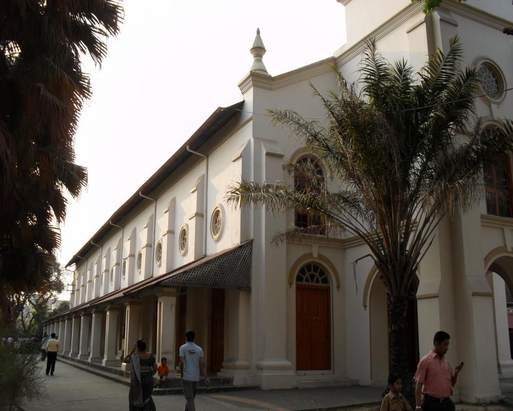 cathedral of holy rosary